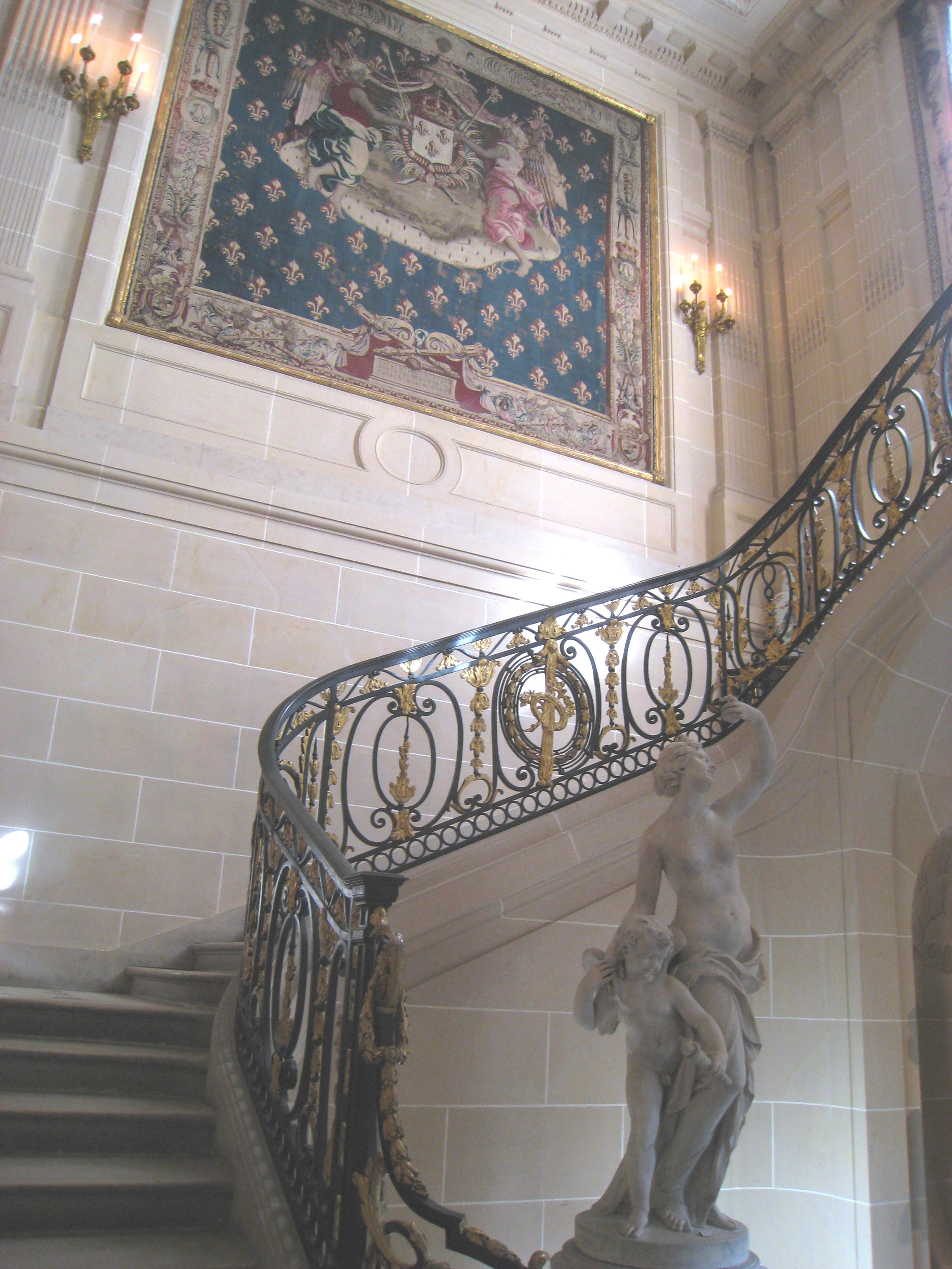 Musée Nissim de Camondo, Paris, France - entry stairway. There were no restrictions on photography (other than prohibiting flash) in writing and when I asked explicitly. Thus the museum did not impose restrictions on the use of this image.